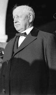 William Dennison Stephens (1859–1944) American politician.